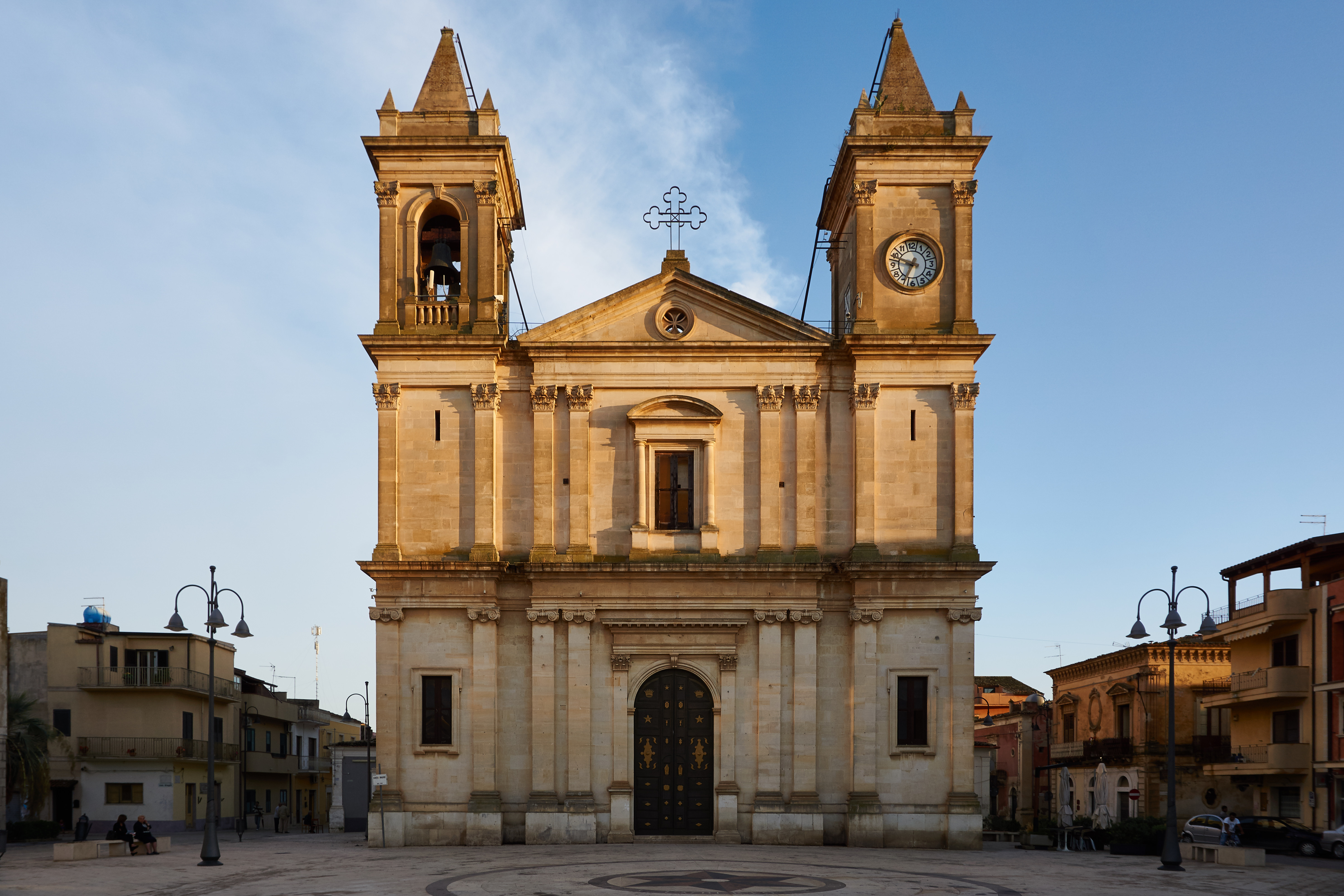 Church "San Nicola di Bari" in Acate, Ragusa